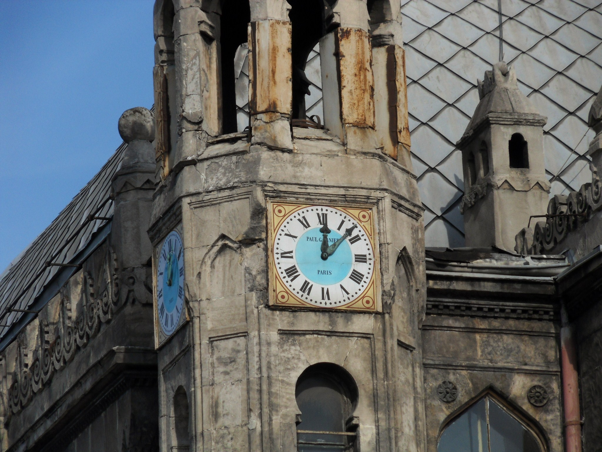 Clock Of Sirkeci Terminus